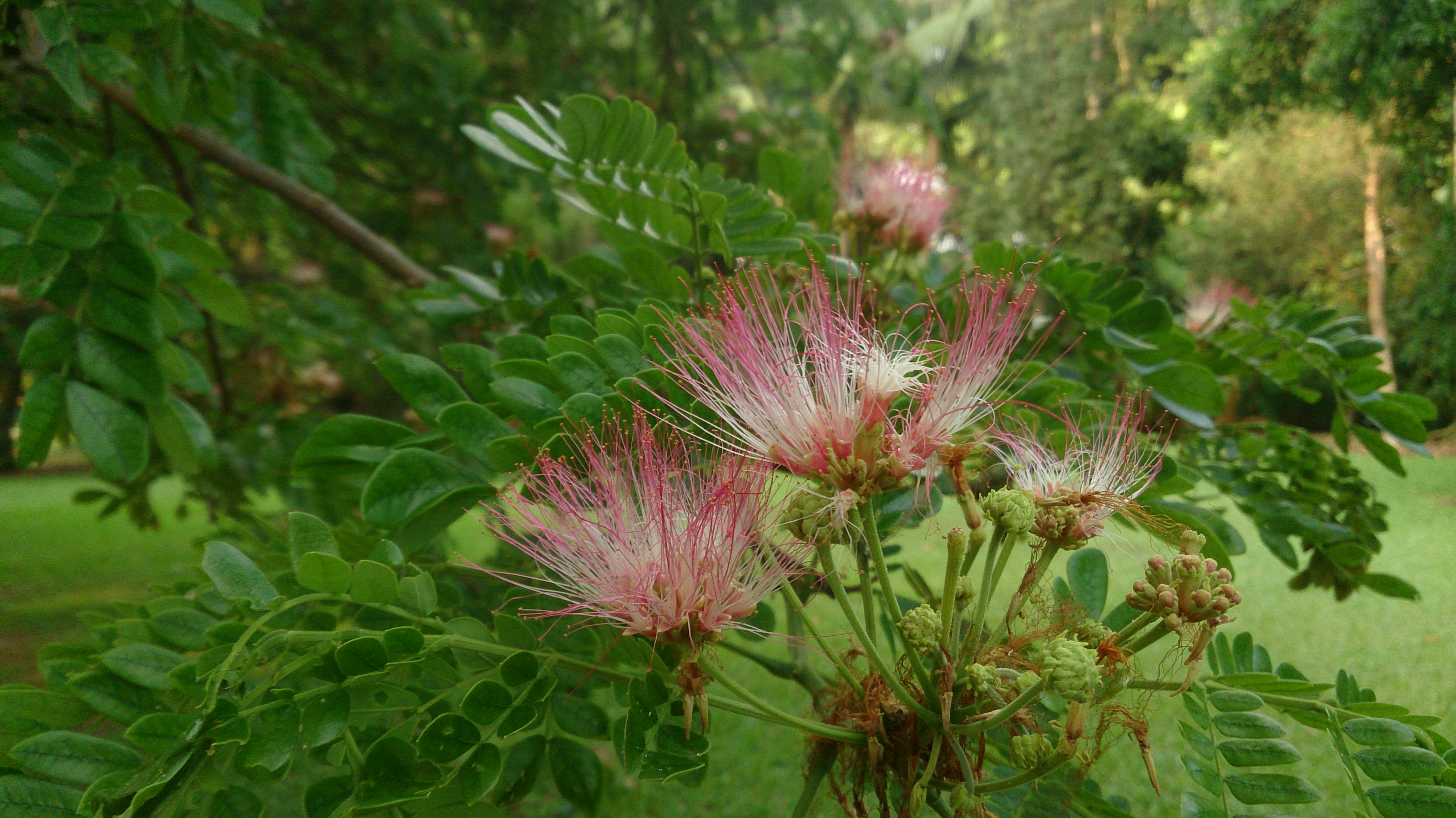 Samanea saman. Common name: Rain Tree.